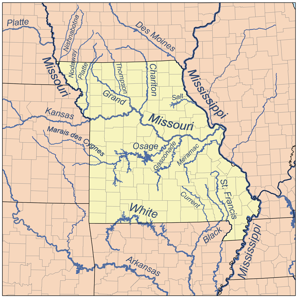 Map showing the major rivers of Missouri.